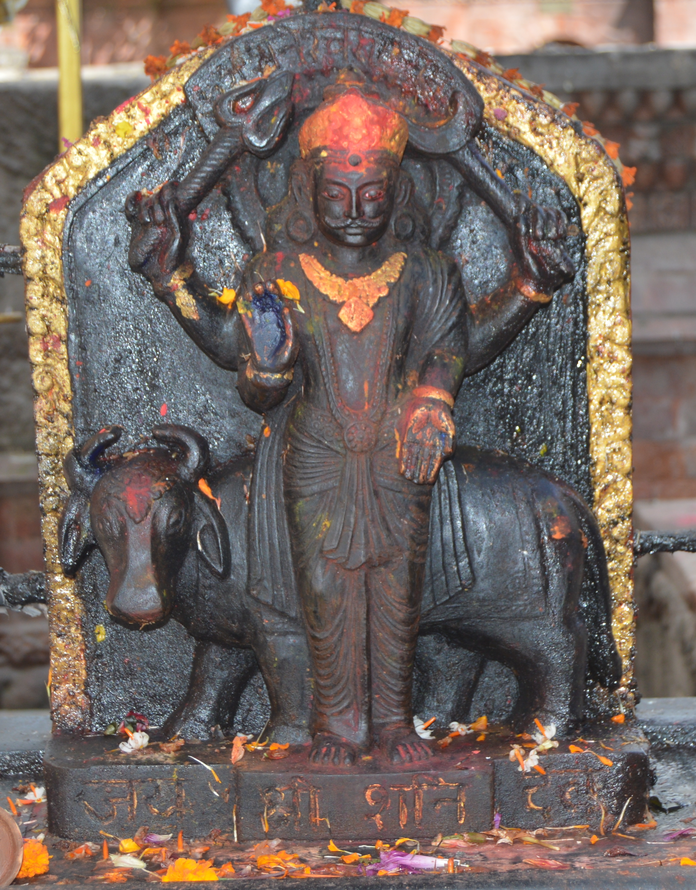 Shani is depicted as a male deity in the Puranas, whose iconography consists of a dark (black) figure carrying a sword (or another weapon) and sitting on a buffalo (or crow or vulture). Shani is the basis for Shanivara – one of the seven days that make a week in the Hindu calendar.